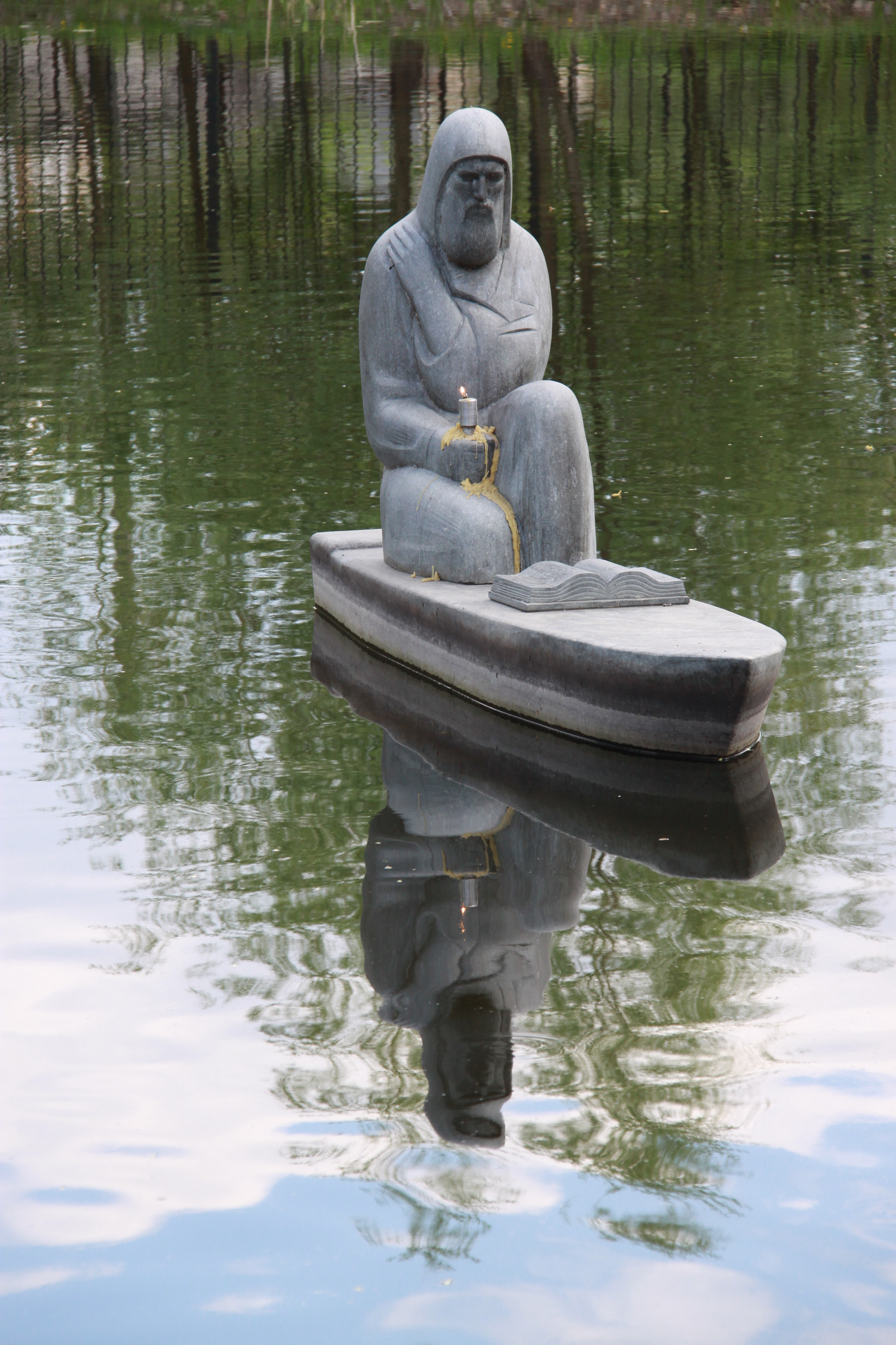 The monument to Elizeusz Pleteniecki at the historical and cultural site "Radomysl Castle", 2009